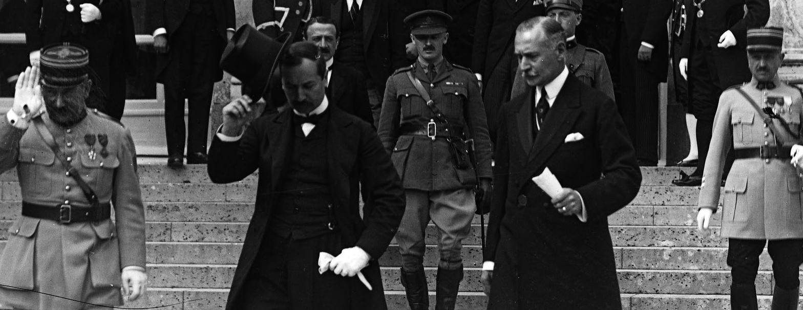 1920. június 4-én, néhány perccel a trianoni békeszerződés aláírása után Benárd Ágost küldöttségvezető (balra, cilinderrel a kezében) és Drasche-Lázár Alfréd rendkívüli követ, államtitkár (jobbra, fedetlen fővel) elhagyja a versailles-i Nagy Trianon kastélyt